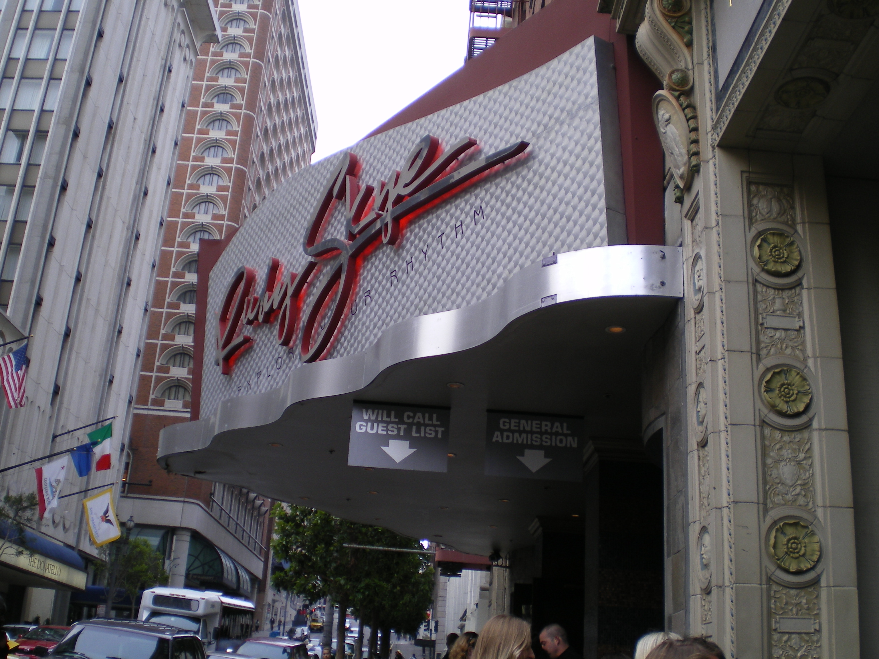 Ruby Skye nightclub